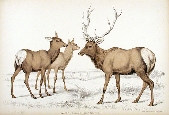 Wapiti=Elk, Cervus strongyloceros = C. canadensis, Winter, published between 1846 and 1850 in J. E. Gray's "Gleanings from the Knowsley Menagerie"